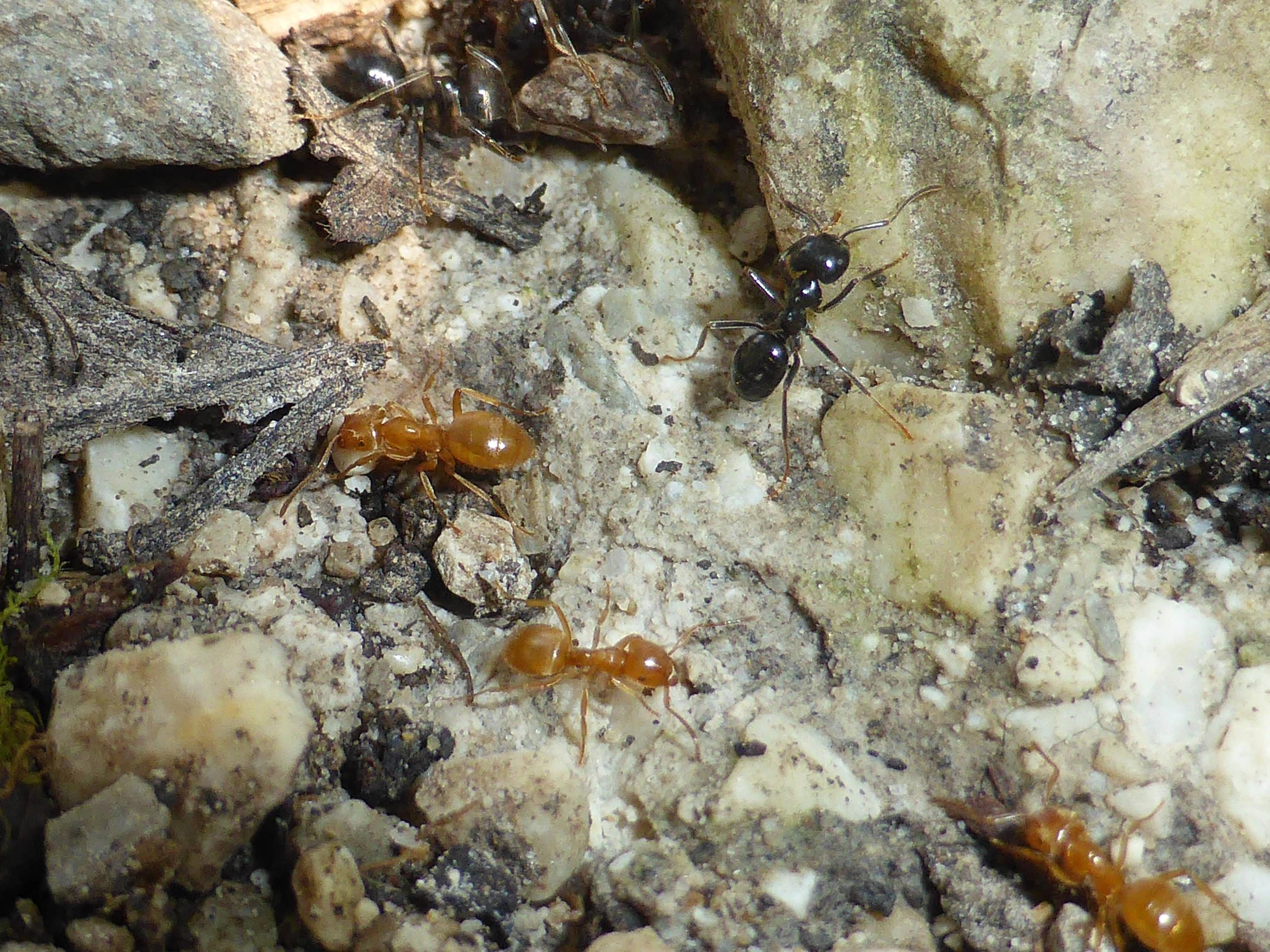 Lasius (Chtonolasius) sp. (orange) colony in transition after having been parasited by Lasius fuliginosus (black): workers of the two species are still present in the nest. Picture was taken in summer 2014 in Upper-Savoy, France.